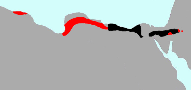 Range map of the Egyptian tortoise (Testudo kleinmanni). Red color: current range. Black color: extinct range. Information based on Tortoise care website.